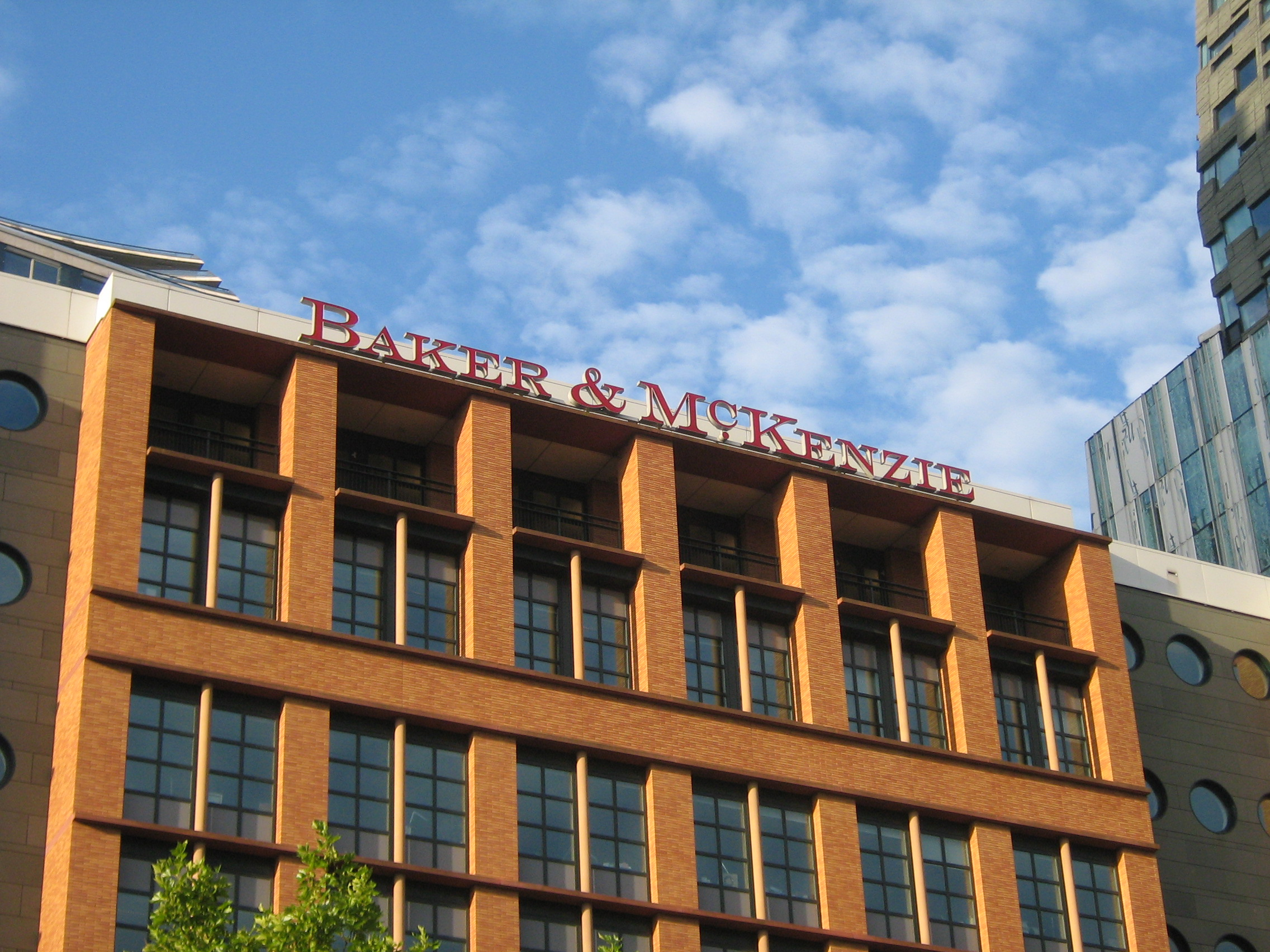 Offices of law firm Baker & McKenzie at 54 Claude Debussylaan, Amsterdam, the Netherlands.